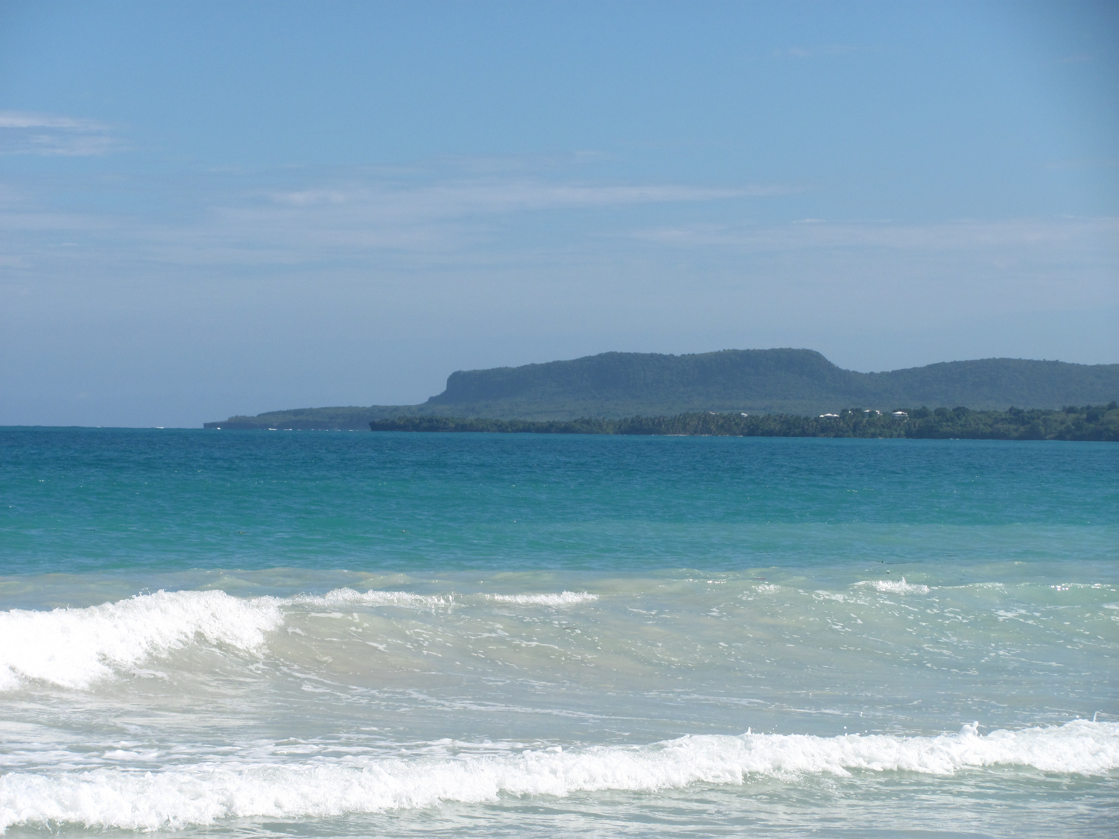 This is Cabo Samaná viewed from the Rincón Bay. This is where Columbus' met the warrior-like Cigüayos.